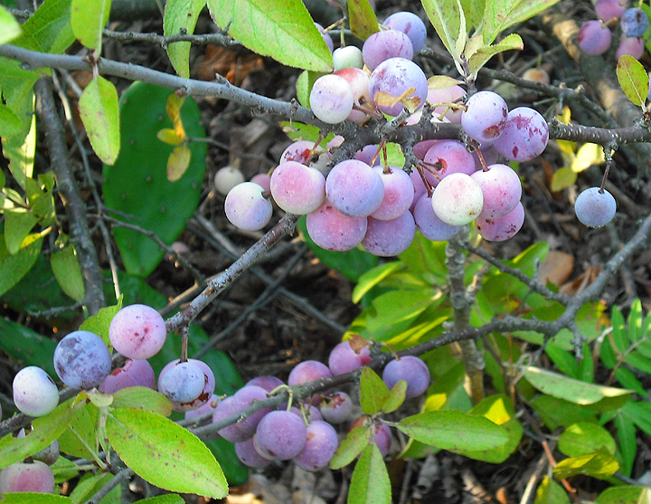 Beach plums (Prunus maritima) at Sandy Hook, Jersey Shore.